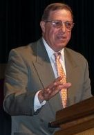 This is my own picture of Paul Palmieri, current president of The Church of Jesus Christ. It is my own work which I am freely distributing.